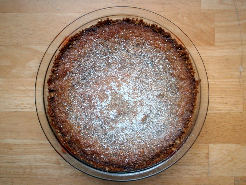 A "Crack Pie" baked by Flickr uploader and food blogger Joy Huang (aka Joy, or Joyosity) based on the Crack Pie recipe by one of the Momofuku restaurants (Momofuku Milk Bar) and in the Momofuku Milk Bar cookbook.